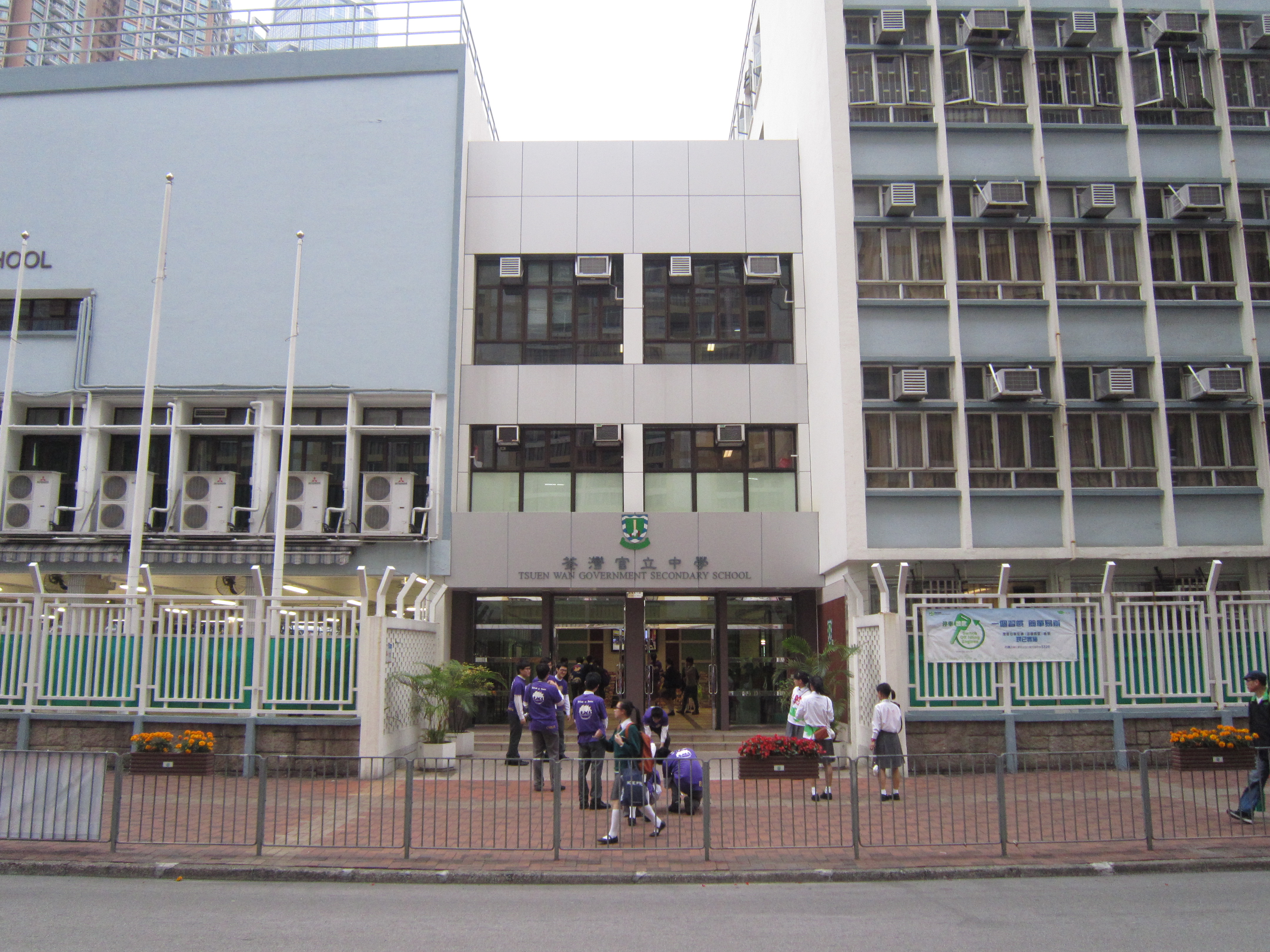 Tsuen Wan Government Secondary School main entrance